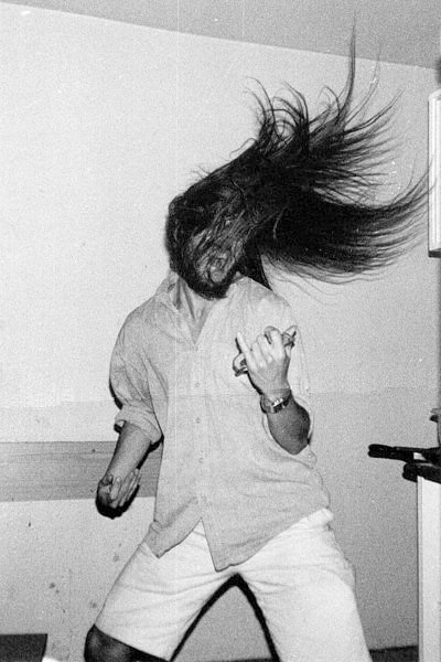 A heavy metal fan mimics a headbanging guitar player